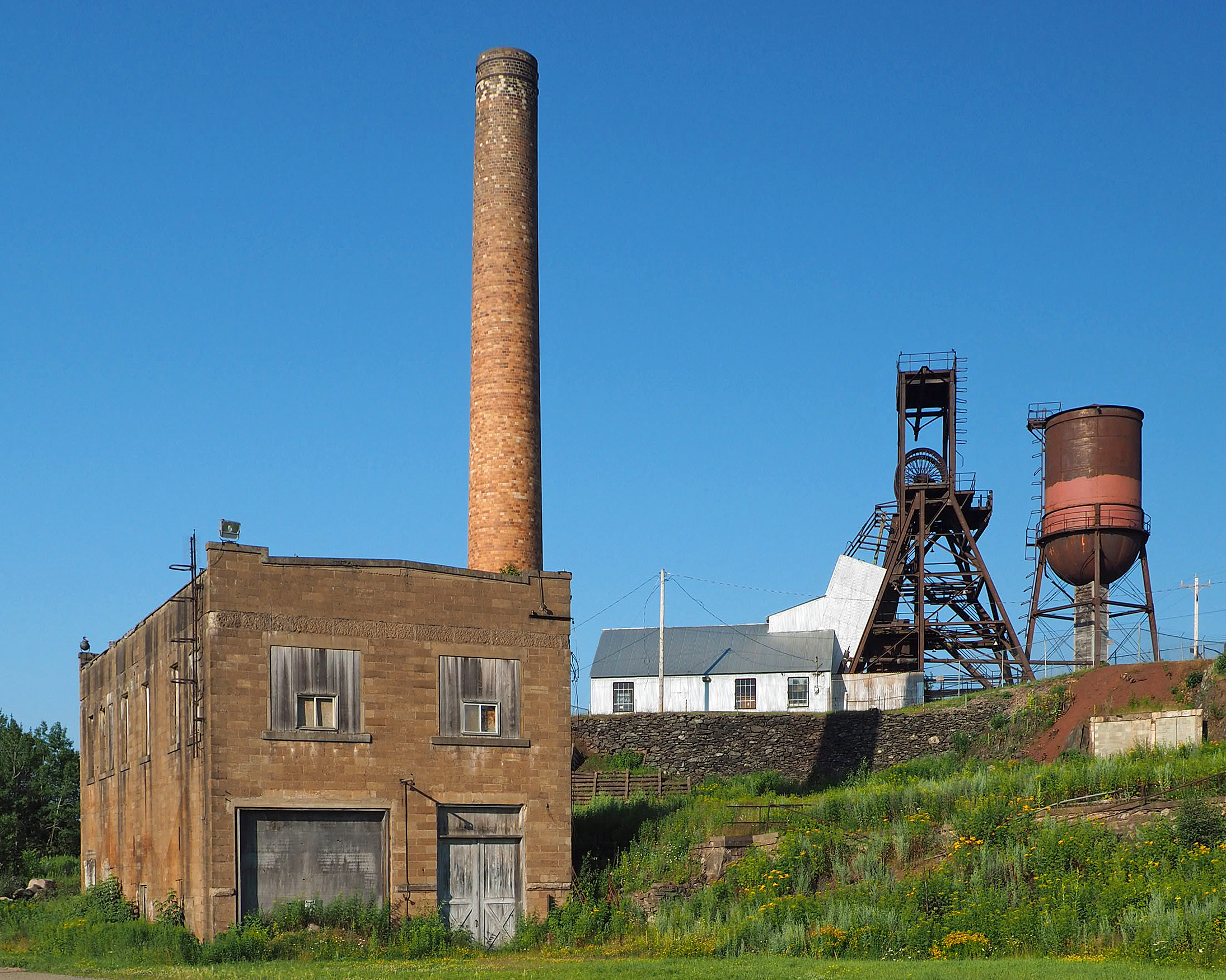 Pioneer Mine complex, 401 N Pioneer Rd, Ely, Minnesota, USA. Viewed from the east-northeast.